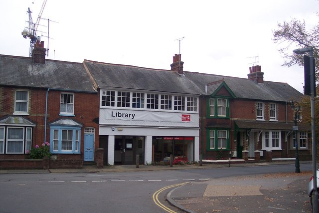 Canterbury Temporary Library. Canterbury Library and Museum TR1457 : Canterbury Royal Museum and Library on Canterbury High Street is currently under going repairs. The library has been moved here to Pound Lane, opposite The Causeway. Behind is the tower crane for the Marlow Theatre Redevelopment.